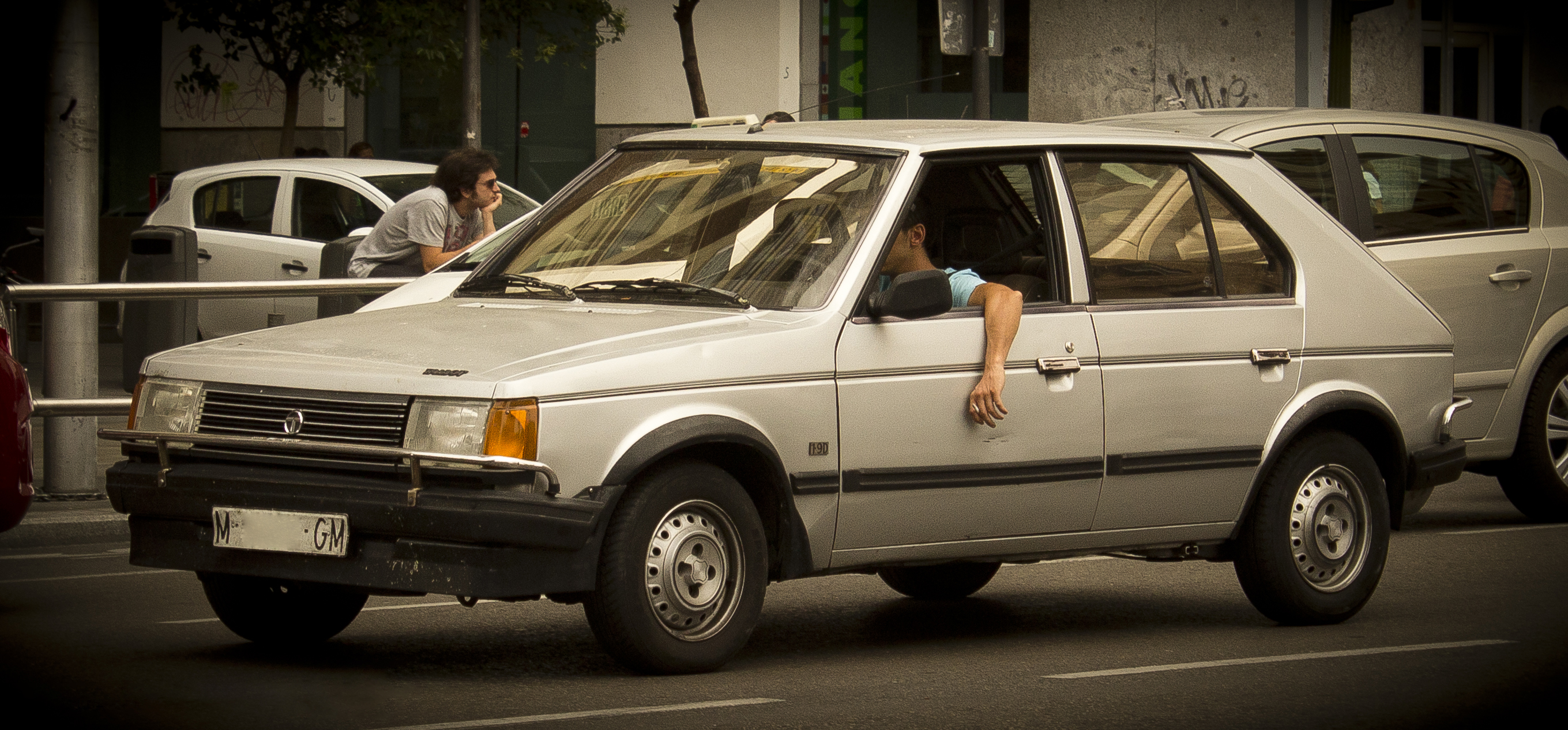 1985 Talbot Horizon GTD